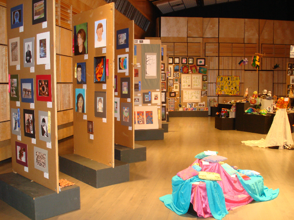 Student Art Show of a school district in the United States